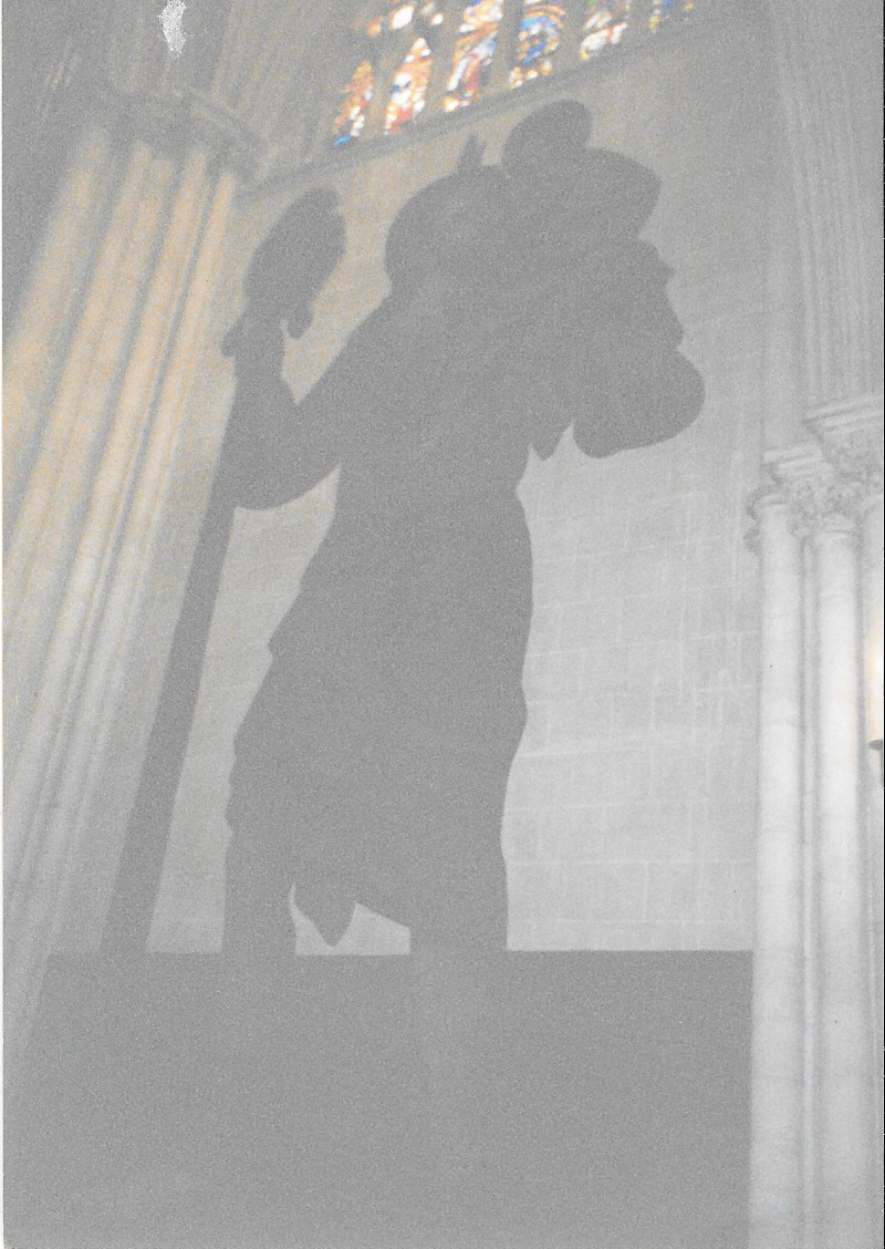 The monumental painting of St. Christopher carrying the Christ child, by the painter Gabriel de Rueda (1638), at the Chapel of Saint Eugene, on the South Wall in the Toledo Cathedral, in Toledo, Spain